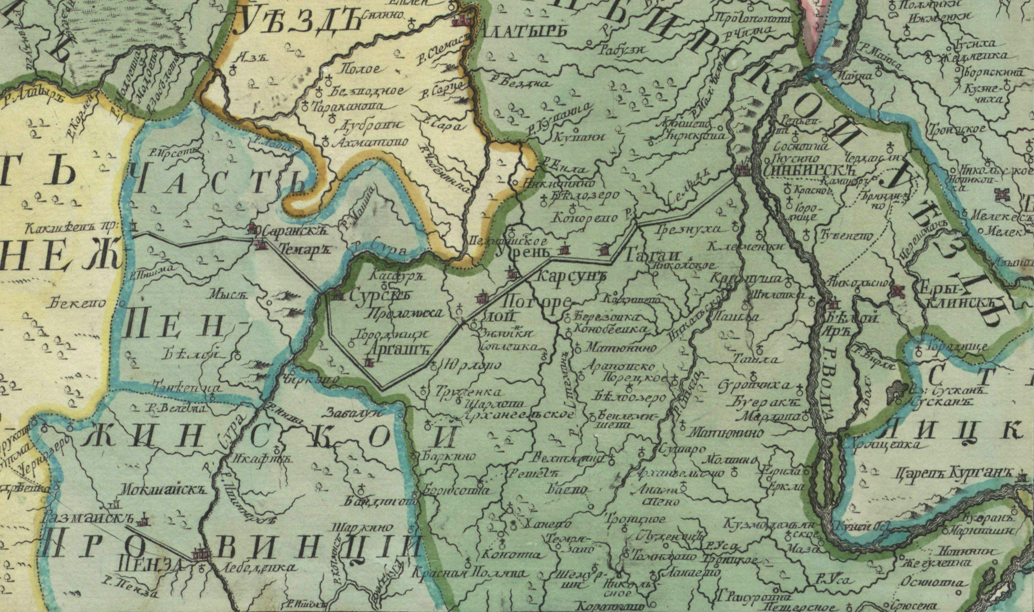 Simbirsk zasechnaya cherta (Simbirskaya, Saranskaya, Karsunskaya, Penzenskaya defense lines). Fragment from: First official geographic atlas of the Russian Empire (1745). Map of Kazan governorate, nearest provinces and part of Volga river. Hand-coloured copper engraving.